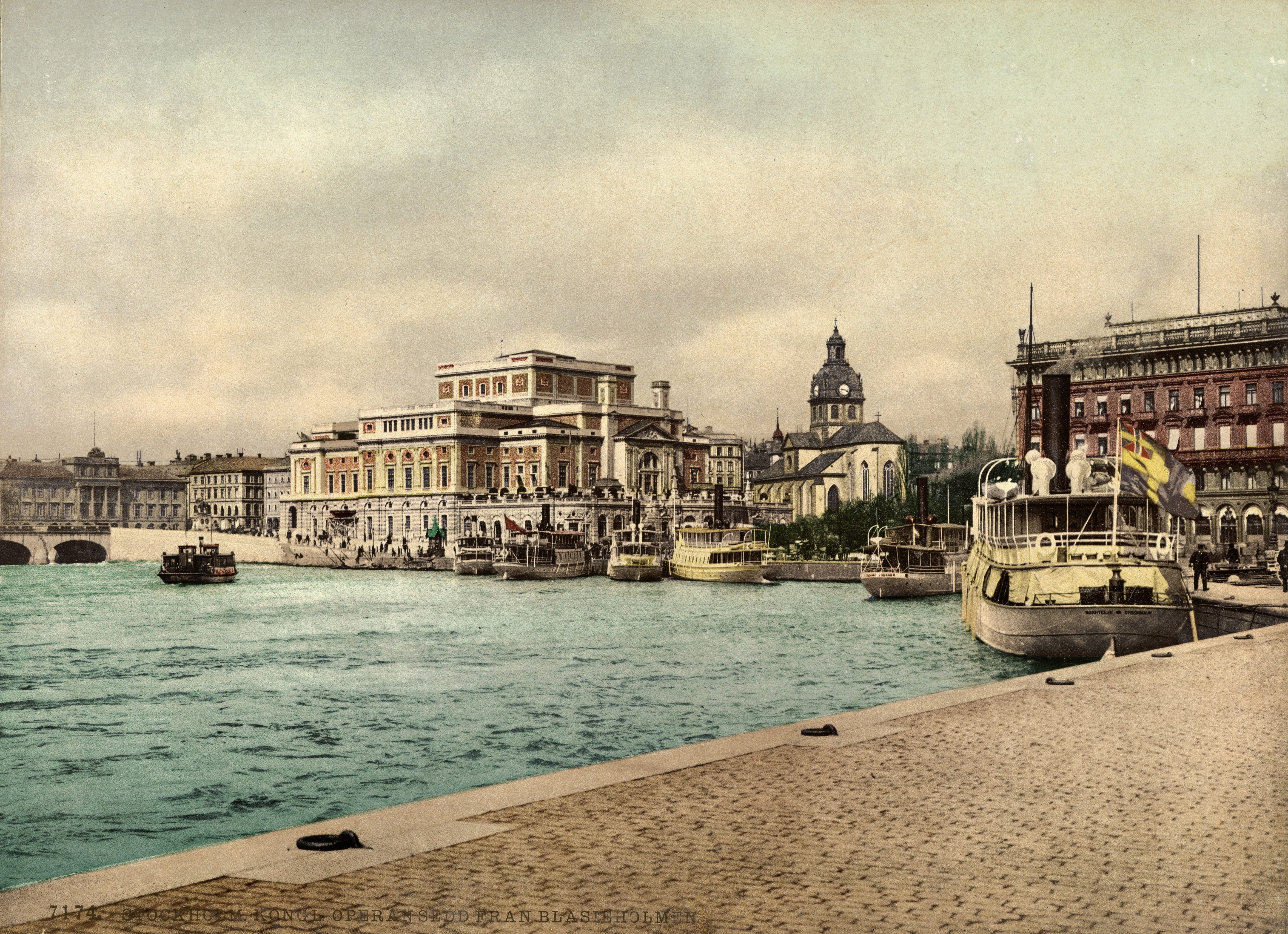 Dato / Date: ca. 1890-1900 Sted / Place: Sverige, Stockholm Fotograf / Photographer: ukjent / unknown Digital kopi av original / Digital copy of original: photochrom Eier / Owner Institution: Nasjonalbiblioteket / National Library of Norway Lenke / Link: Bildesignatur / Image Number: blds_07612